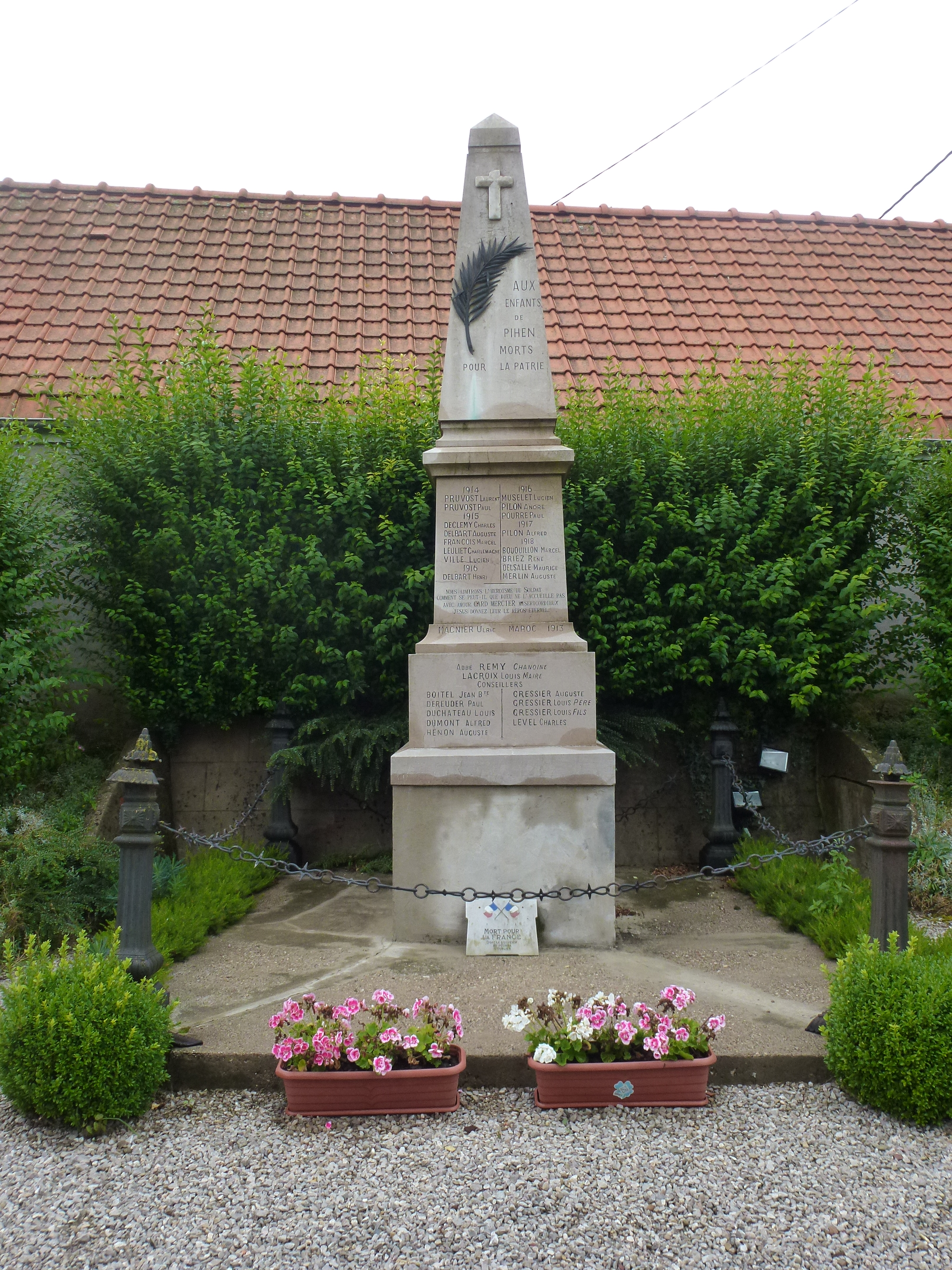 Pihen-lès-Guînes (Pas-de-Calais) monument aux morts